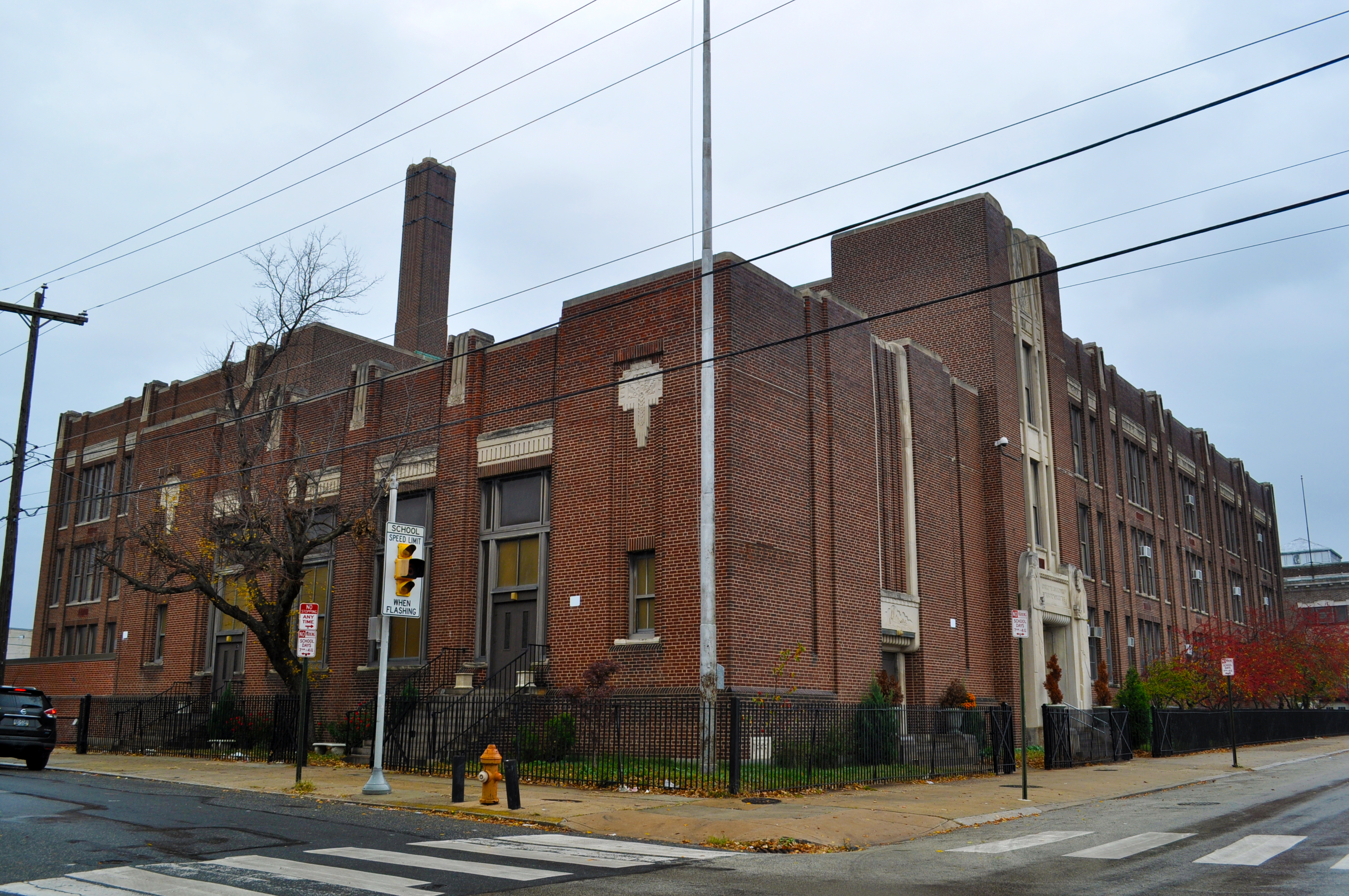 Vare-Washington Elementary School - 1198 S 5th St Philadelphia PA 19147